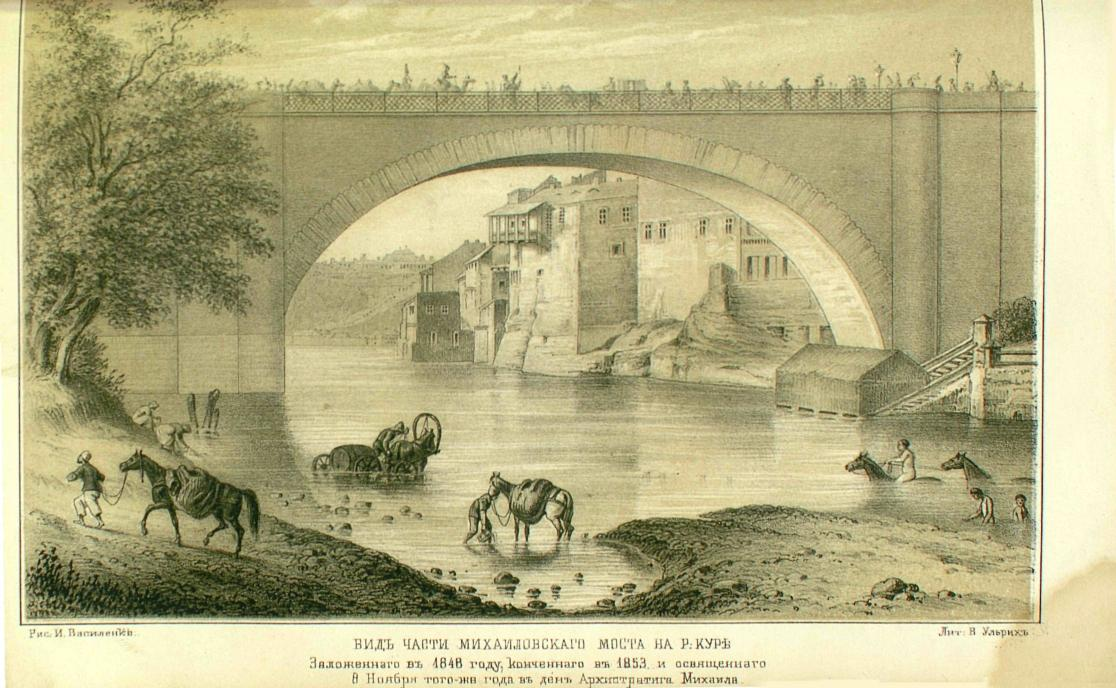 Tbilisi, Mikhailovski bridge